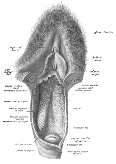 An anatomical illustration from the 1906 edition of Sobotta's Atlas and Text-book of Human Anatomy with English Terminology